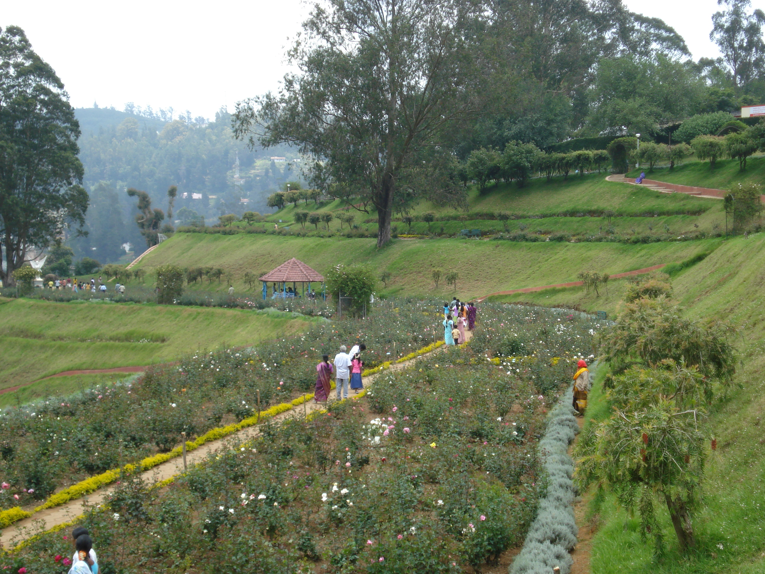 Roses viewed from terrace view at Centenary Rose Park, Ooty